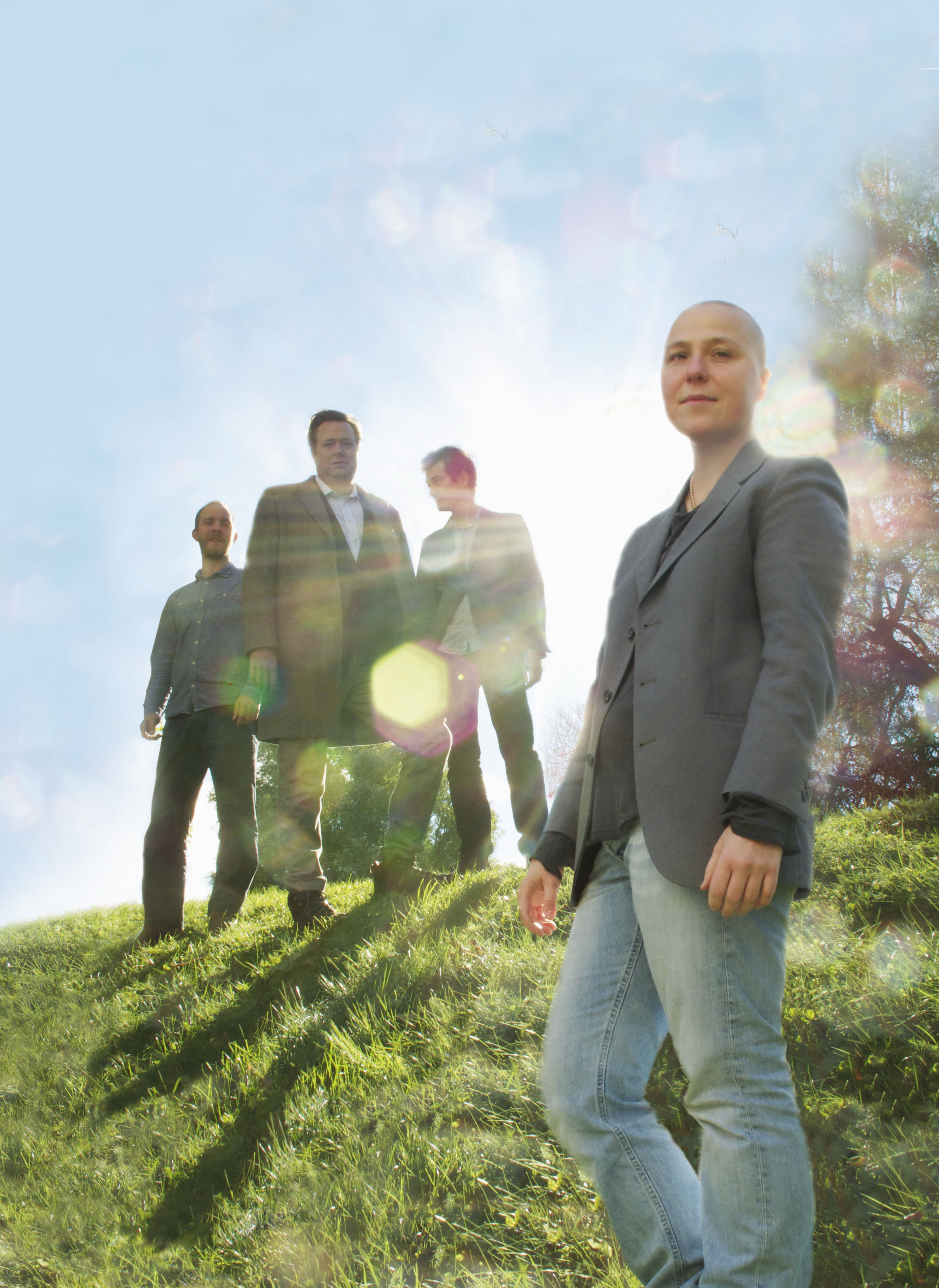 Bandpic Nina Ramsby Ludvig Berghe Trio (Nina Ramsby, Ludvig Berghe, Daniel Fredriksson, Kenji Rabson)